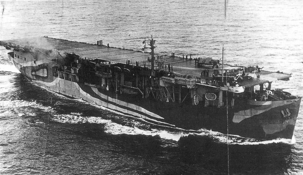 UK Escort carrier HMS Archer (D78) underway in 1943, with Swordfish of 819 Squadron and Martlets (US Wildcats) of 892 Squadron on deck.